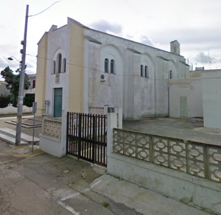 Chiesa dei SS. Angeli Custodi